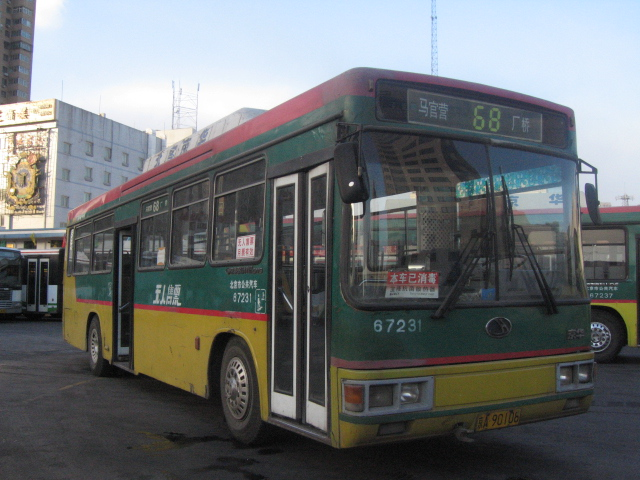 A prototype CNG bus built in 1998 on Route 68. Maybe originally a BK6111B.